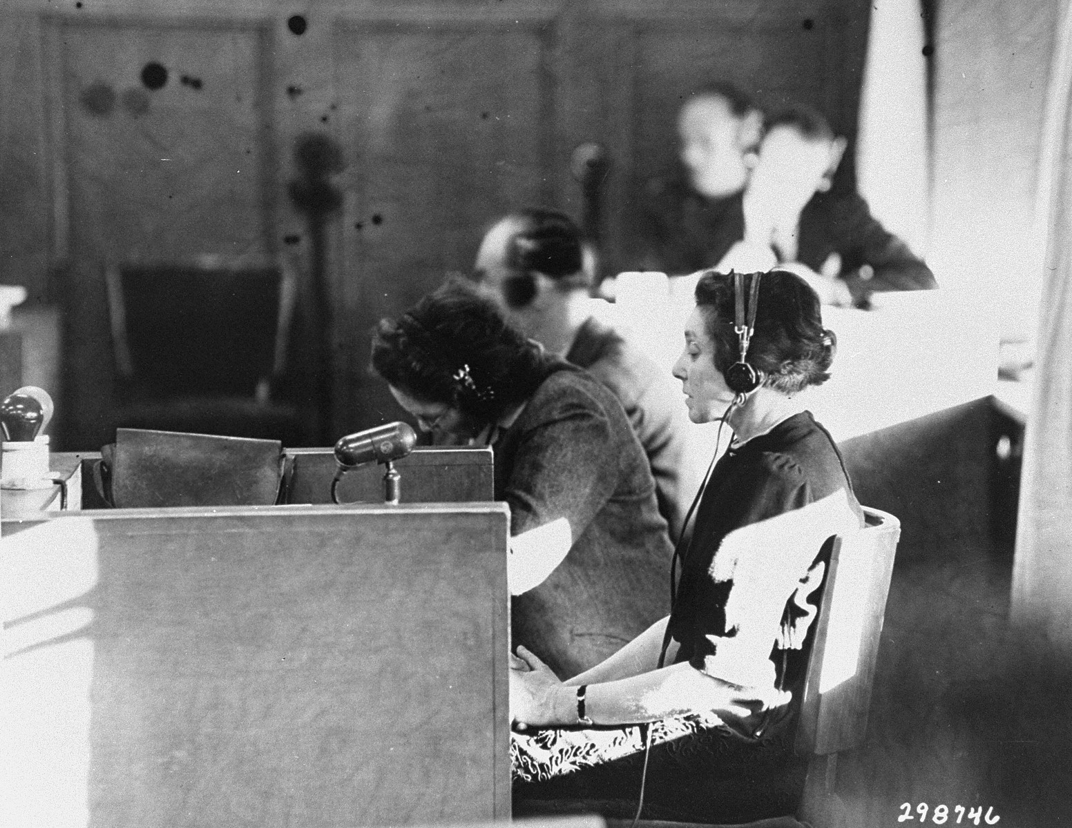 Dr. Martha Mosse testifies for the prosecution against Gottlob Berger during the Ministries Trial.